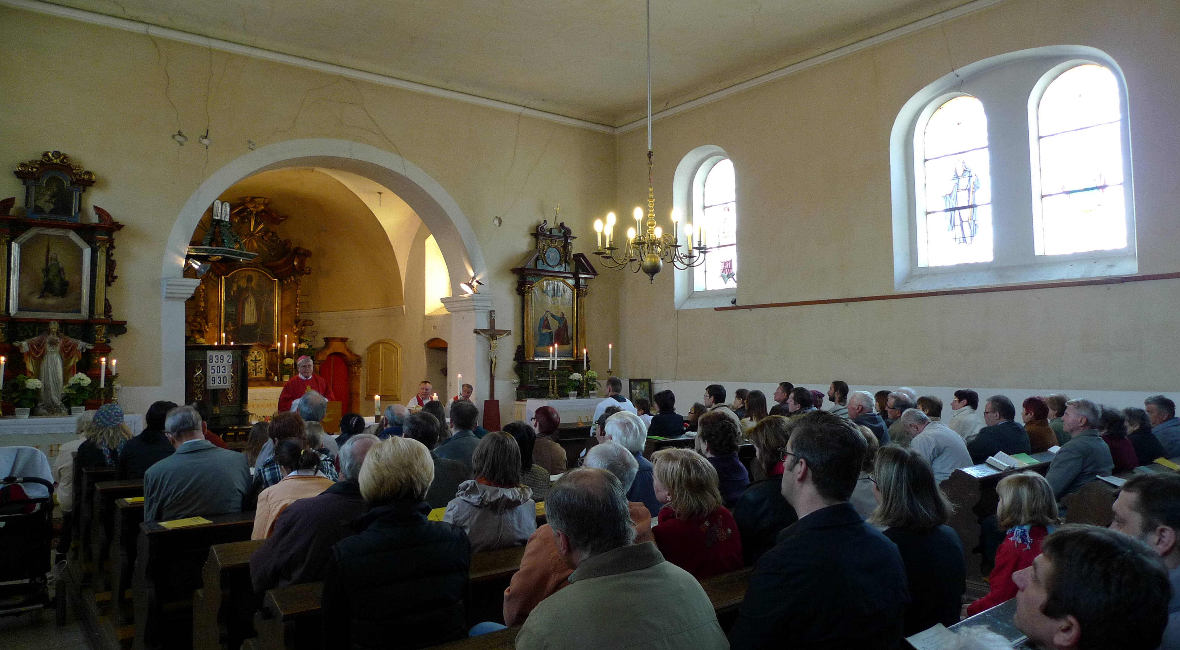 Church of Saint Adalbert (Přerov nad Labem)